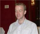 Jonathan Rowson, Scotland's third chess Grandmaster